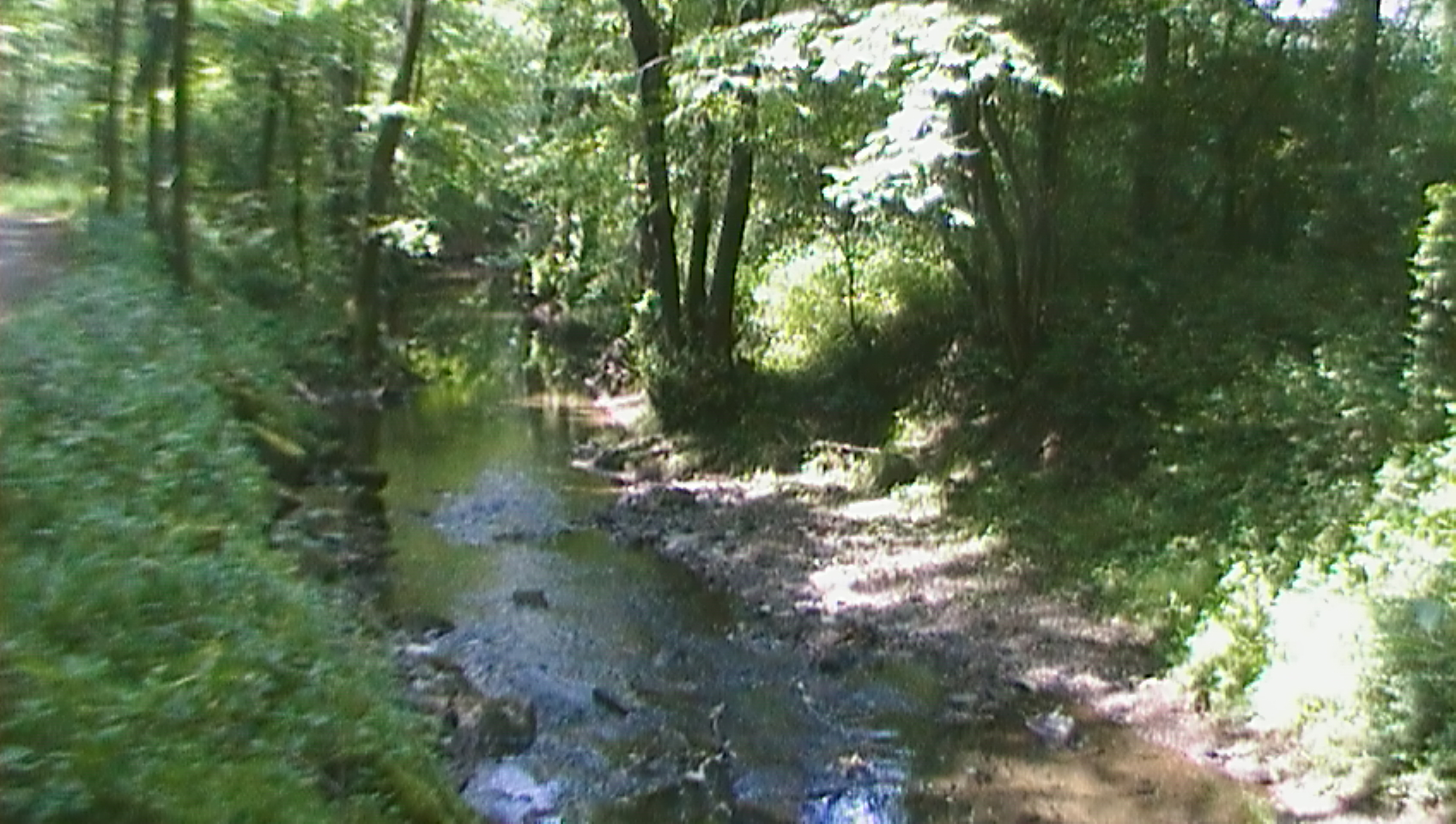 quisa river or stream in Almè